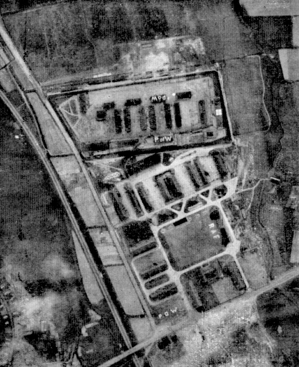 Aerial image of Oflag X-C Lübeck, taken by a US airplane on April 26, 1945, north is bottom right, the road to the left is Vorwerker Strasse